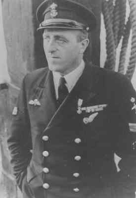 Pieter Dourlein, Knight in the Military William Order, after WW 2.